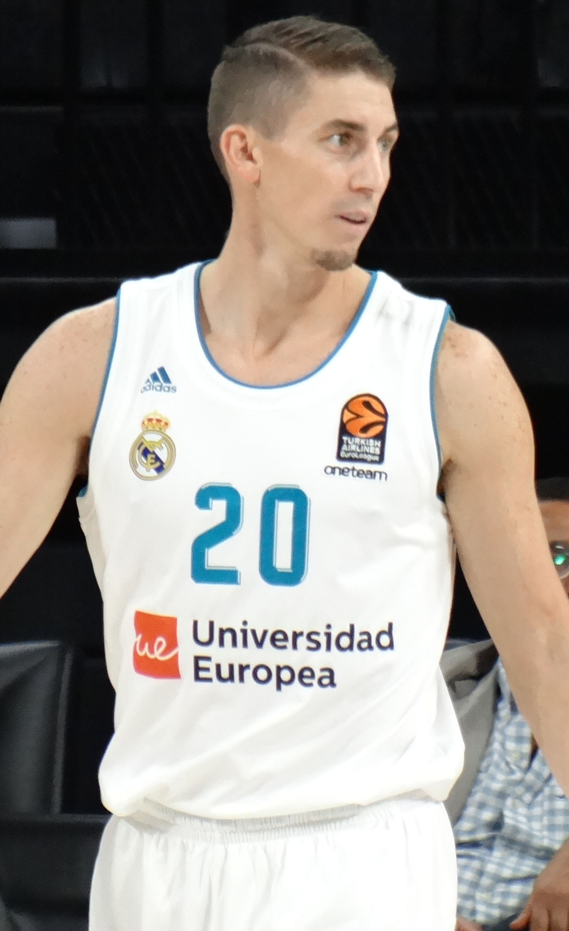 Jaycee Carroll 20 Real Madrid Baloncesto Euroleague 20171012